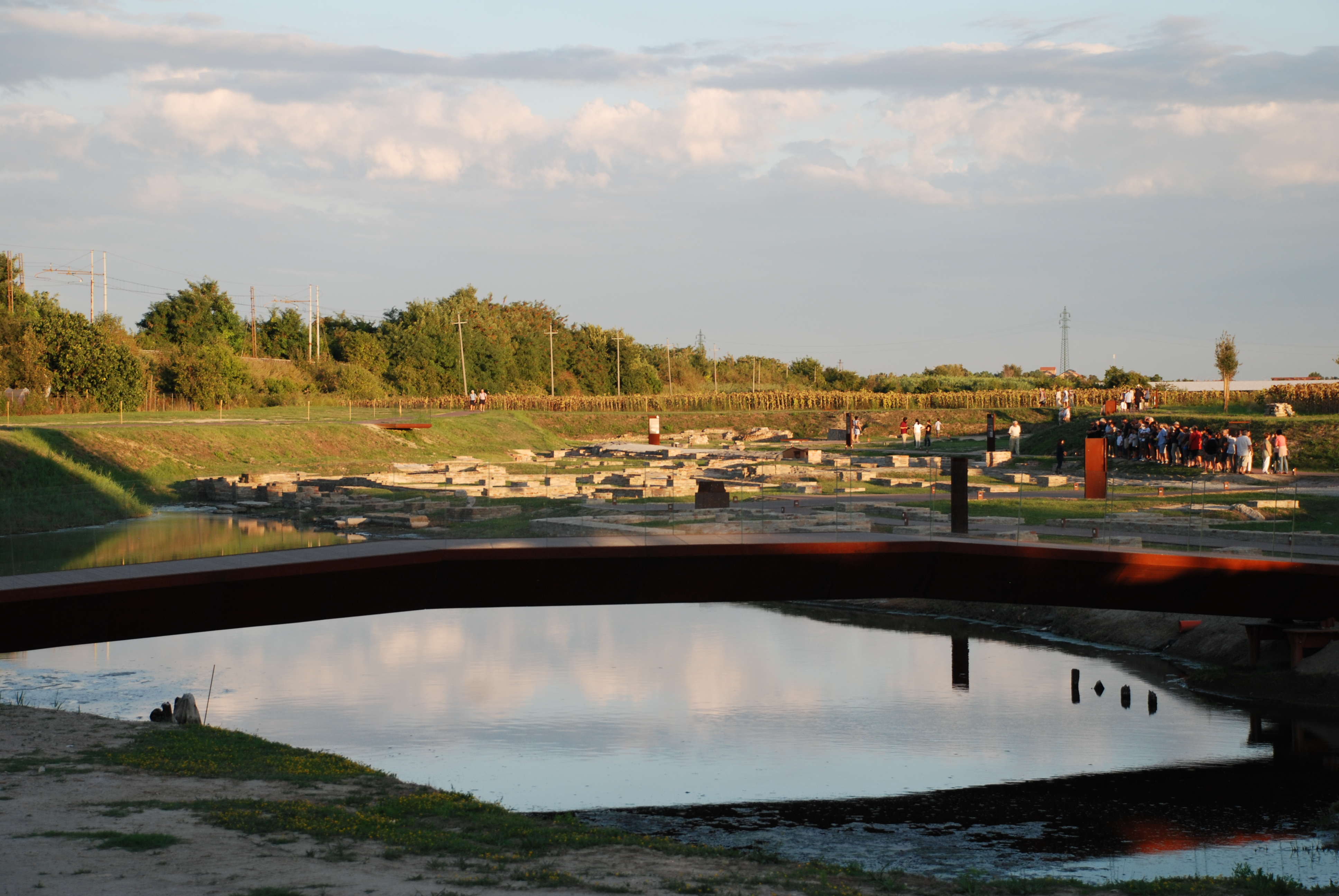 Classe, ancient port of Ravenna